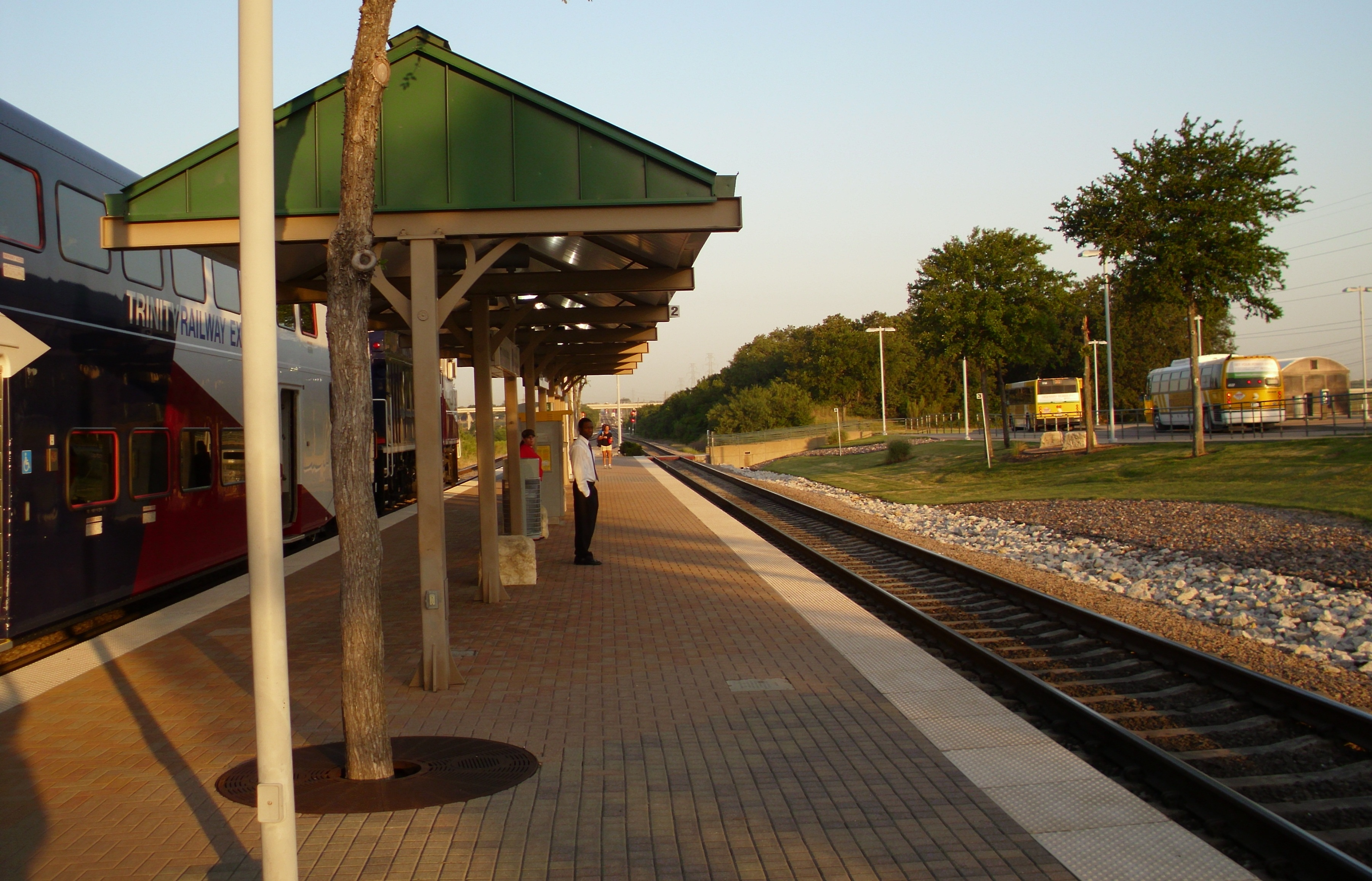 DART buses and TRE train at West Irving Station awaiting departure